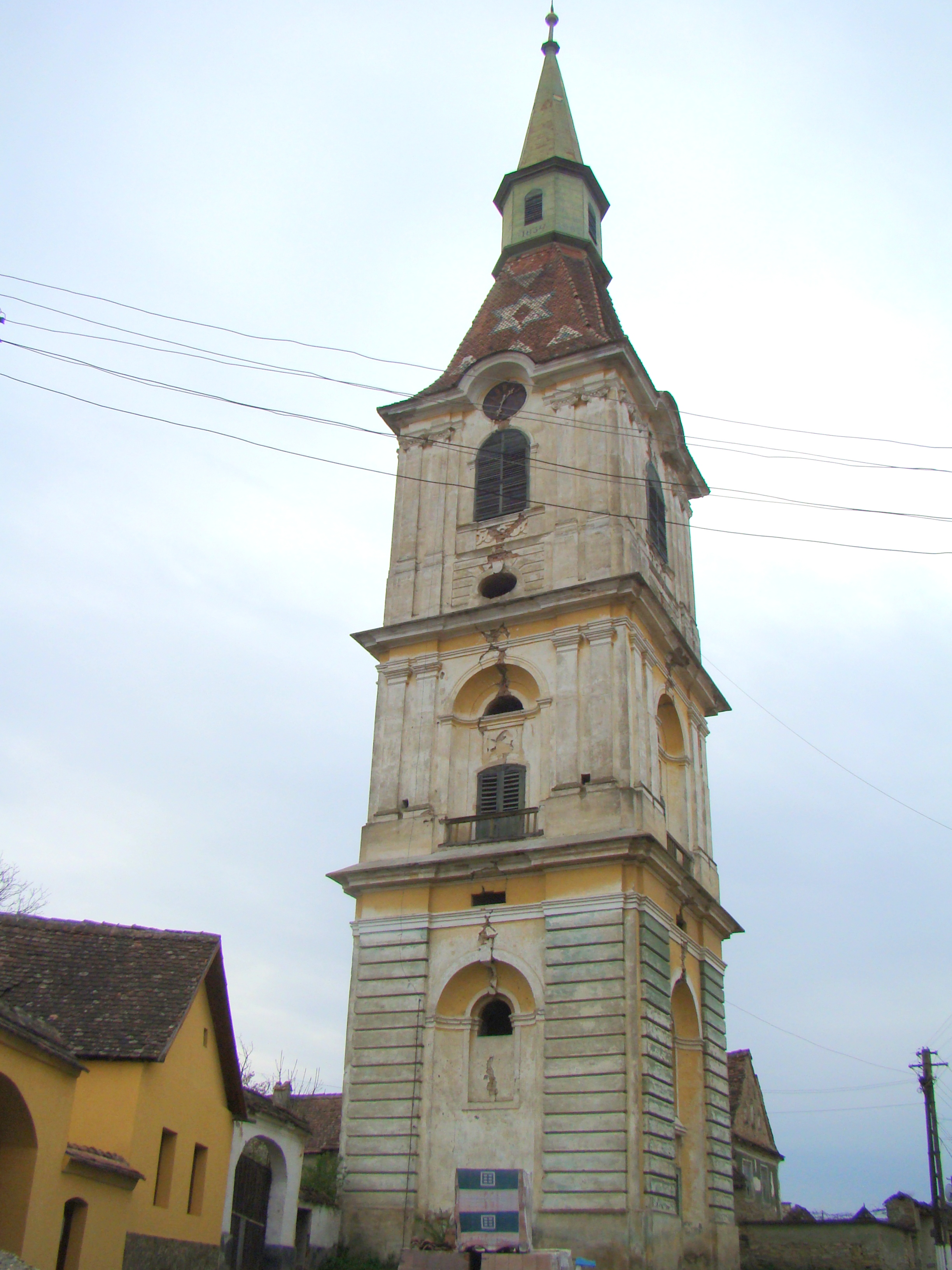 Lutheran church in Daia, Mureș county, Romania